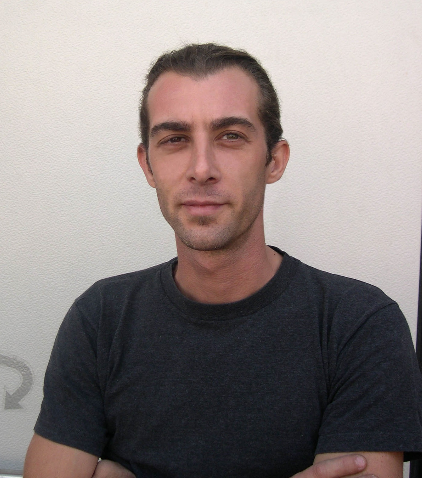 Loris Cecchini ritratto